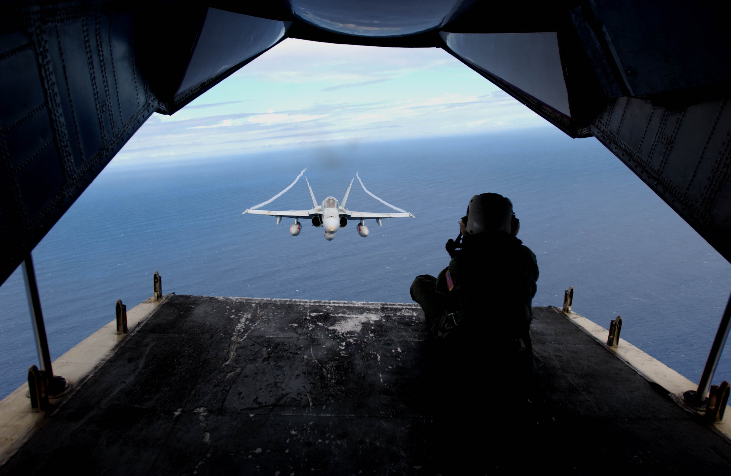 Western Pacific Ocean (Oct. 25, 2003) -- Photographer’s Mate 3rd Class Beth Thompson, from San Francisco, Calif., photographs an F/A-18 Hornet, from the cargo ramp of a C-2 Greyhound, assigned to the “Black Aces” of Strike Fighter Squadron Forty One (VFA-41) over the Western Pacific Ocean. The Nimitz Carrier Strike Group and Carrier Air Wing Eleven (CVW-11) are deployed to the Western Pacific. U.S. Navy photo by Photographer’s Mate 2nd Class Christopher L. Jordan. (RELEASED)